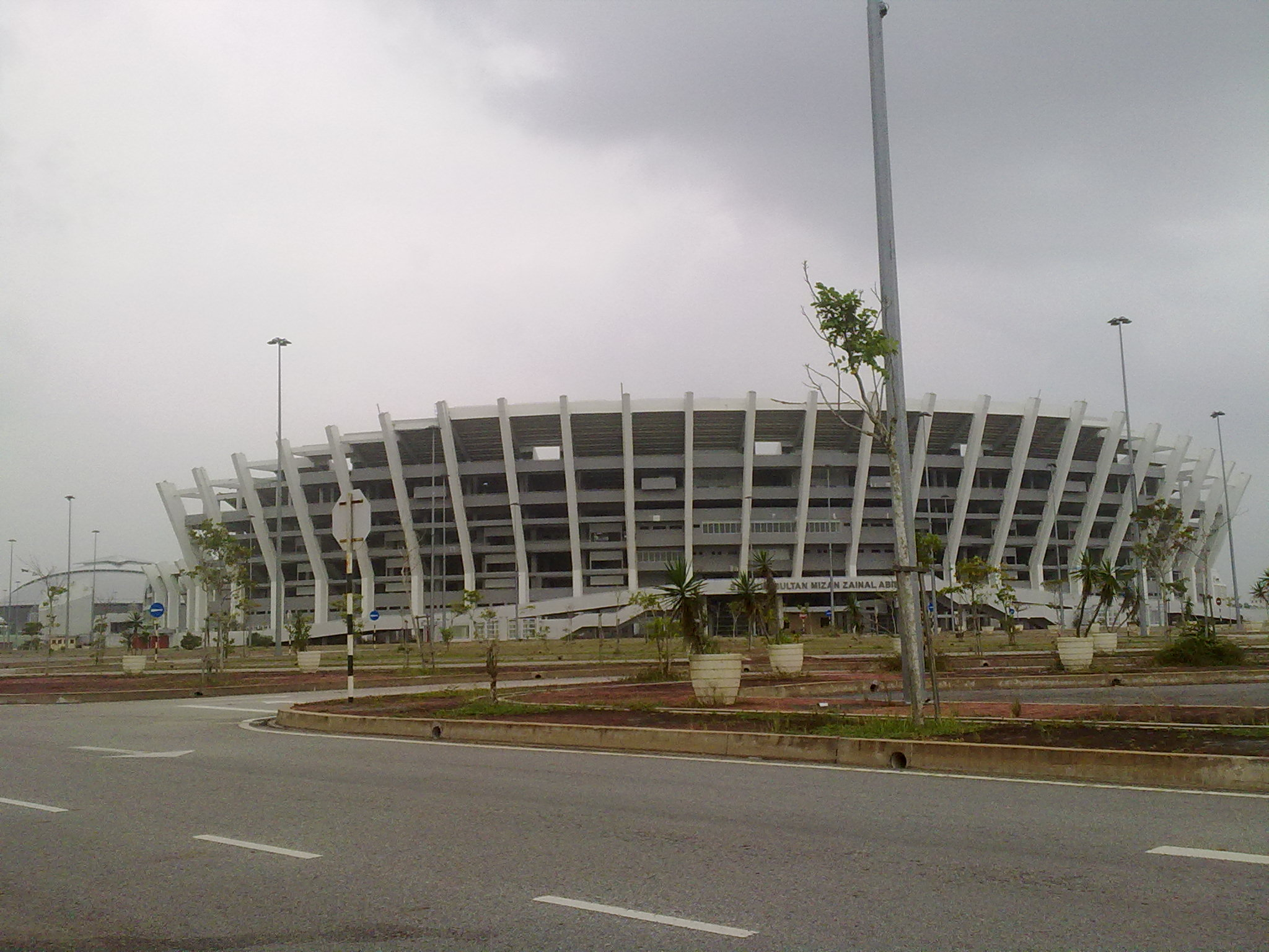 View of the roofless Sultan Mizan Zainal Abidin Stadium, Gong Badak, Kuala Terengganu from the rear entrance.The mini stadium is at the back, far left.